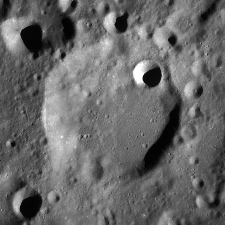 Evdokimov crater, on the far side of the moon. LRO Wide Angle Camera mosaic.